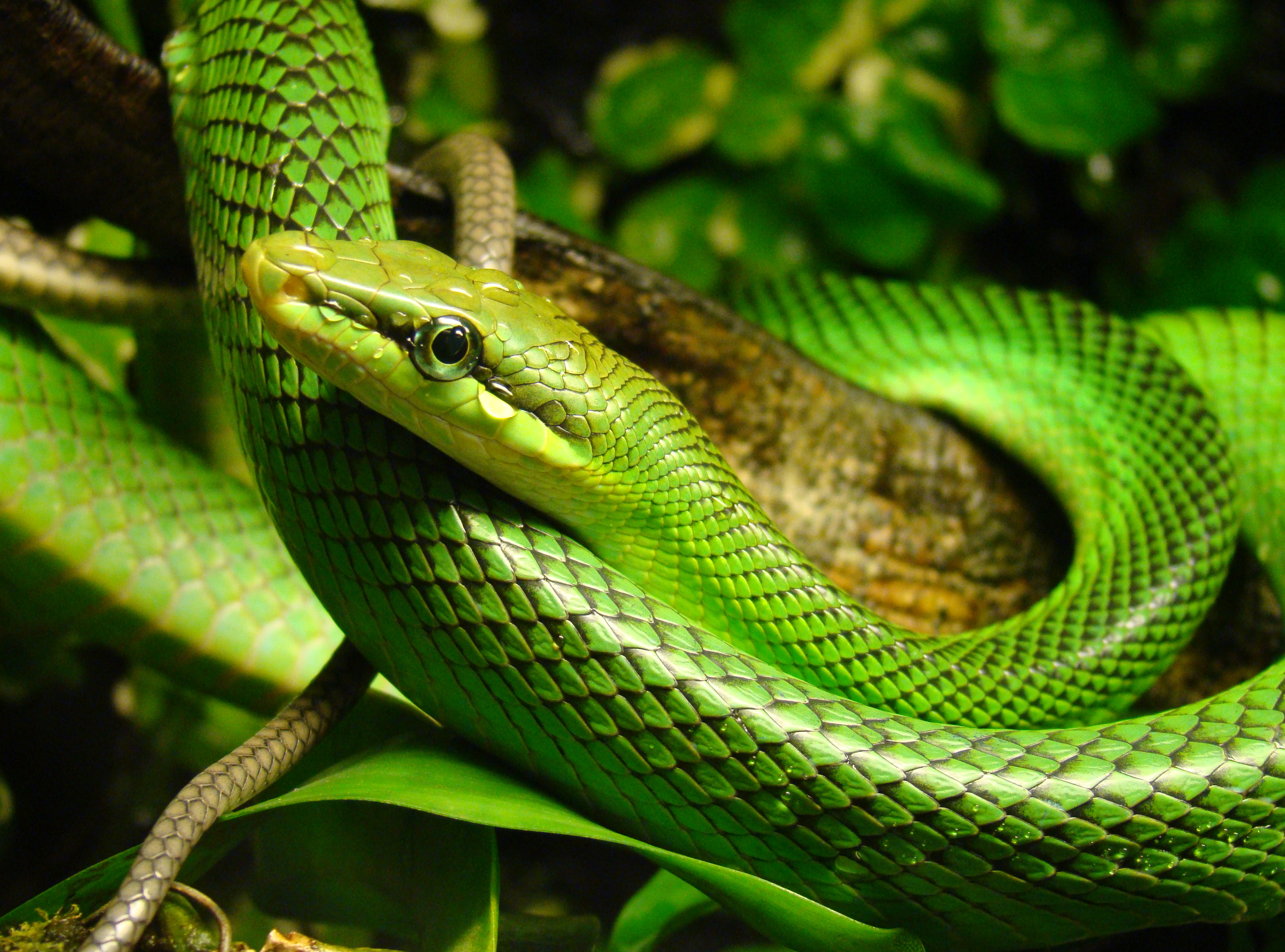 Red-tailed Racer, a snake living in trees and caves in South-East Asia. While the head and body is green, you can see in the photo that the colour of the snake moves toward red at the tail of the snake. This specimen was photographed in Oslo Reptile Park in Oslo, Norway.